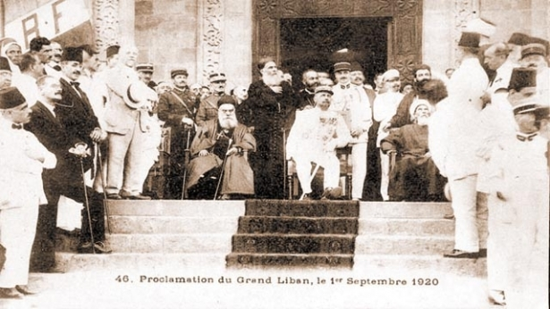 Celebrating the Declaration of Greater Lebanon in the Headquarters of the Supreme French Commisioner in Qasr Al-Sanawbar (Palace of Pines) in Beirut. General Henri Gouraud appears in the middle, on his left is the Grand Mufti of Beirut Sheikh Mustafa Naja, and on his right is the Maronite Patriarch Elias Peter Hoayek.